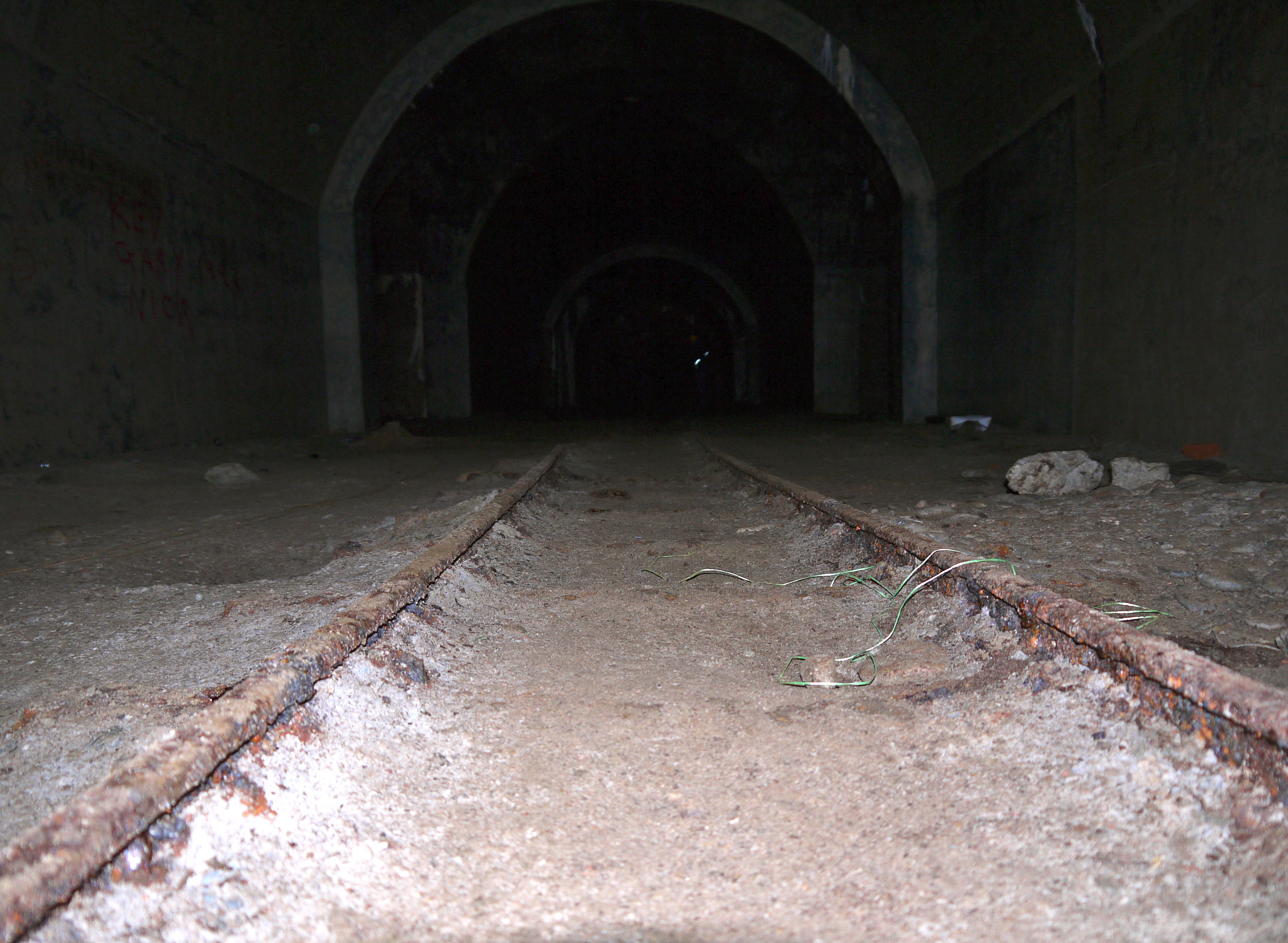 Ho2 interior as of 2011